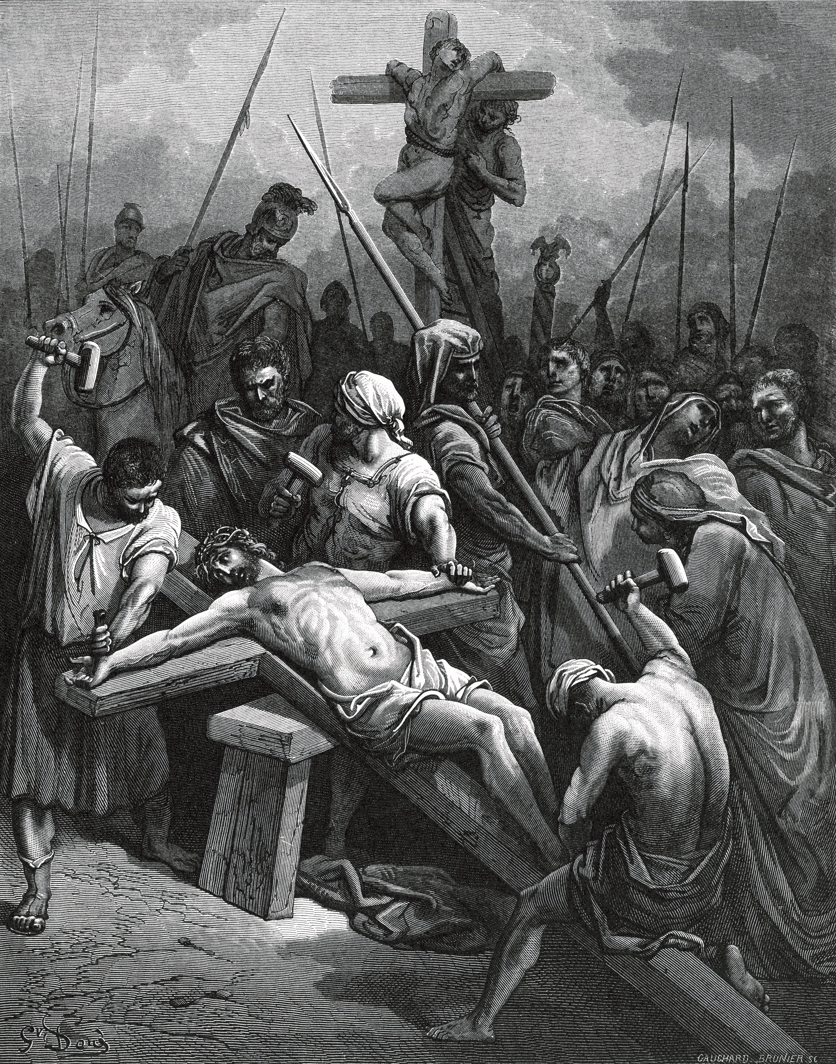 Wood engraving Crucifixion of Jesus 1866 by Gustave Doré.